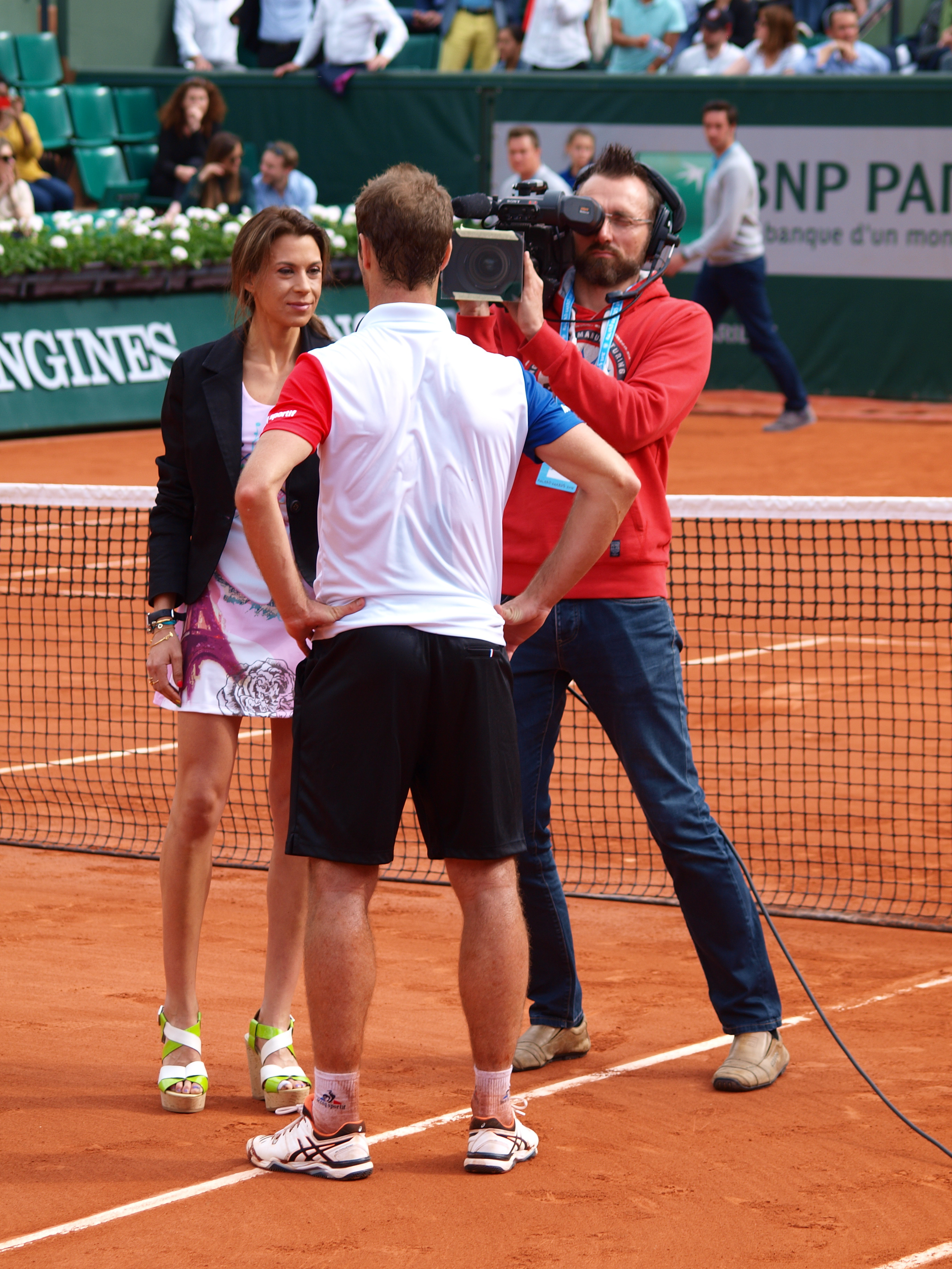 Marion Bartoli interviewing the French tennis player Richard Gasquet during the 2016 French Open at the Roland Garros stadium in Paris, 25 May 2016, after his match against the US player Bjorn Fratangelo.